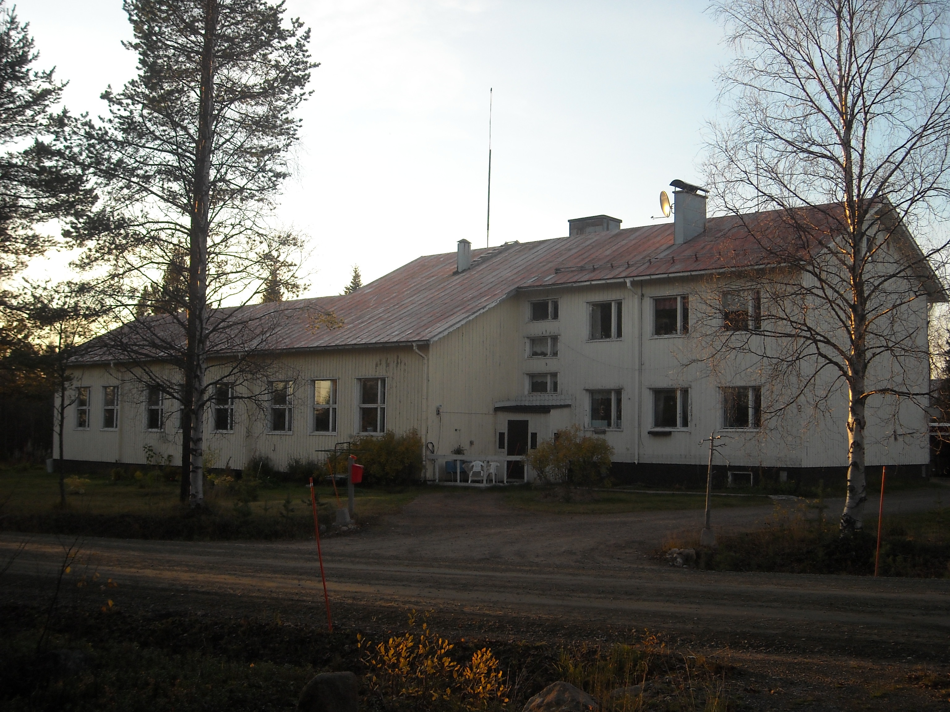 Former Venetti School in Kolari, Finland. The building was built in 1953, and the school was closed in 1988.